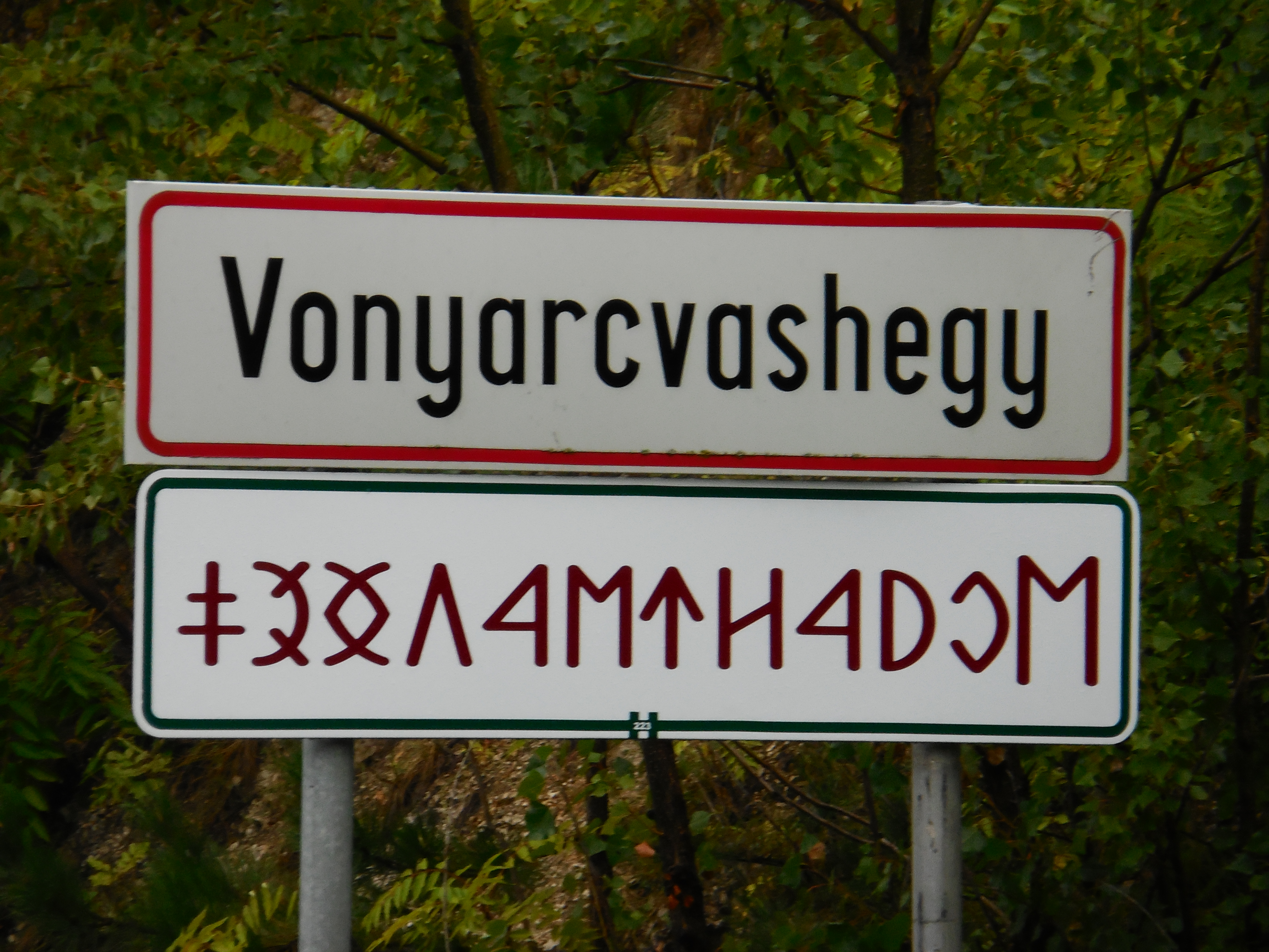 Rovas city limit sign design using Latin and Szekely-Hungarian Rovas script